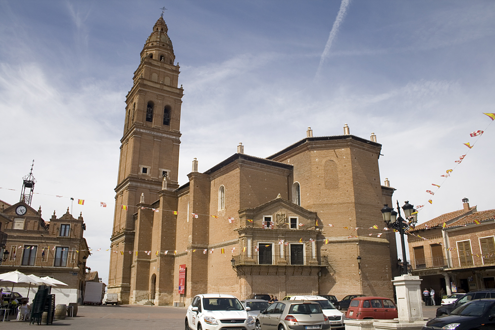 Church of Saint Peter in Alaejos, Valladolid, Spain.